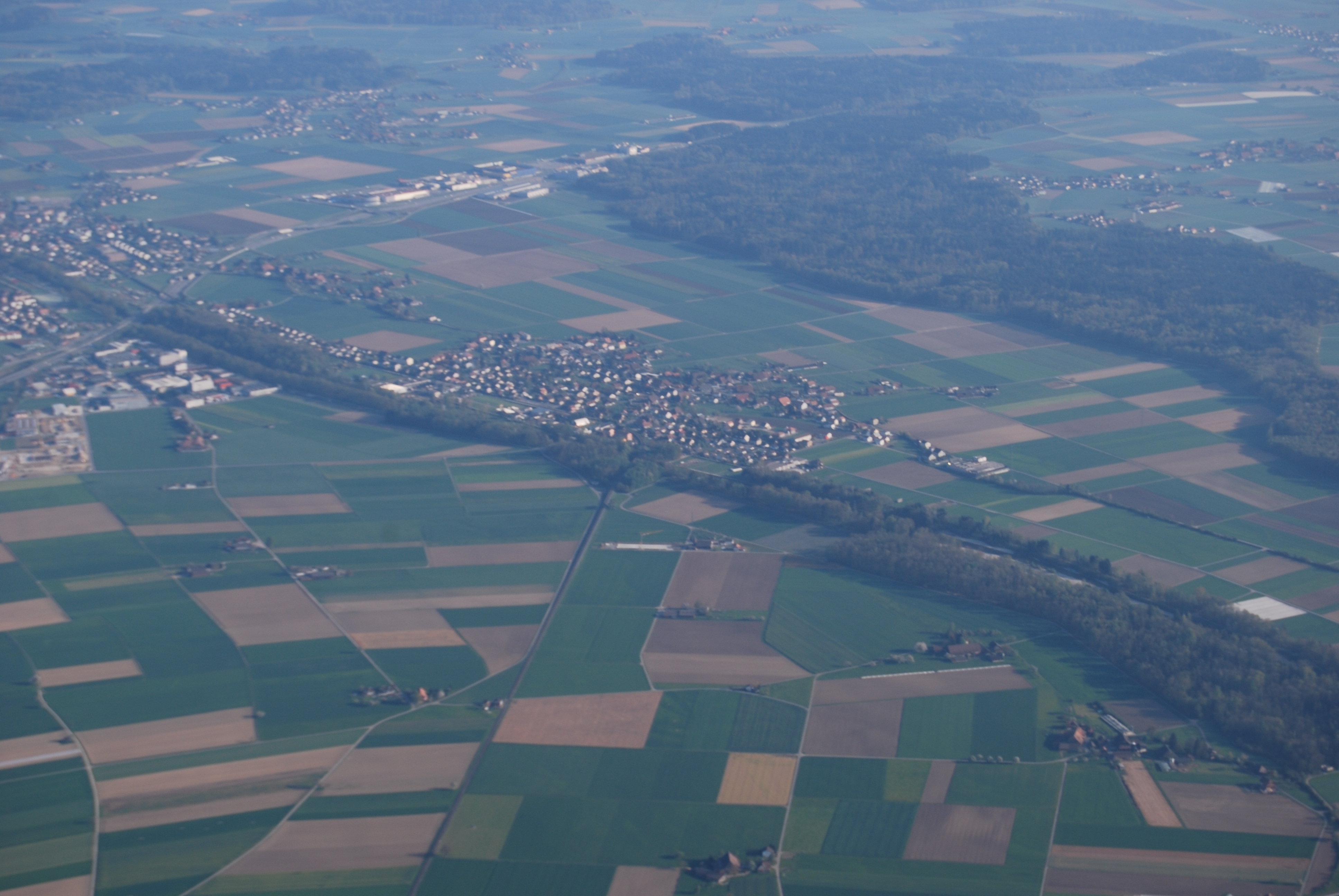 Aefligen, canton of Bern, SwitzerlandEsperanto: Aefligen, Kantono Berno, Svislando